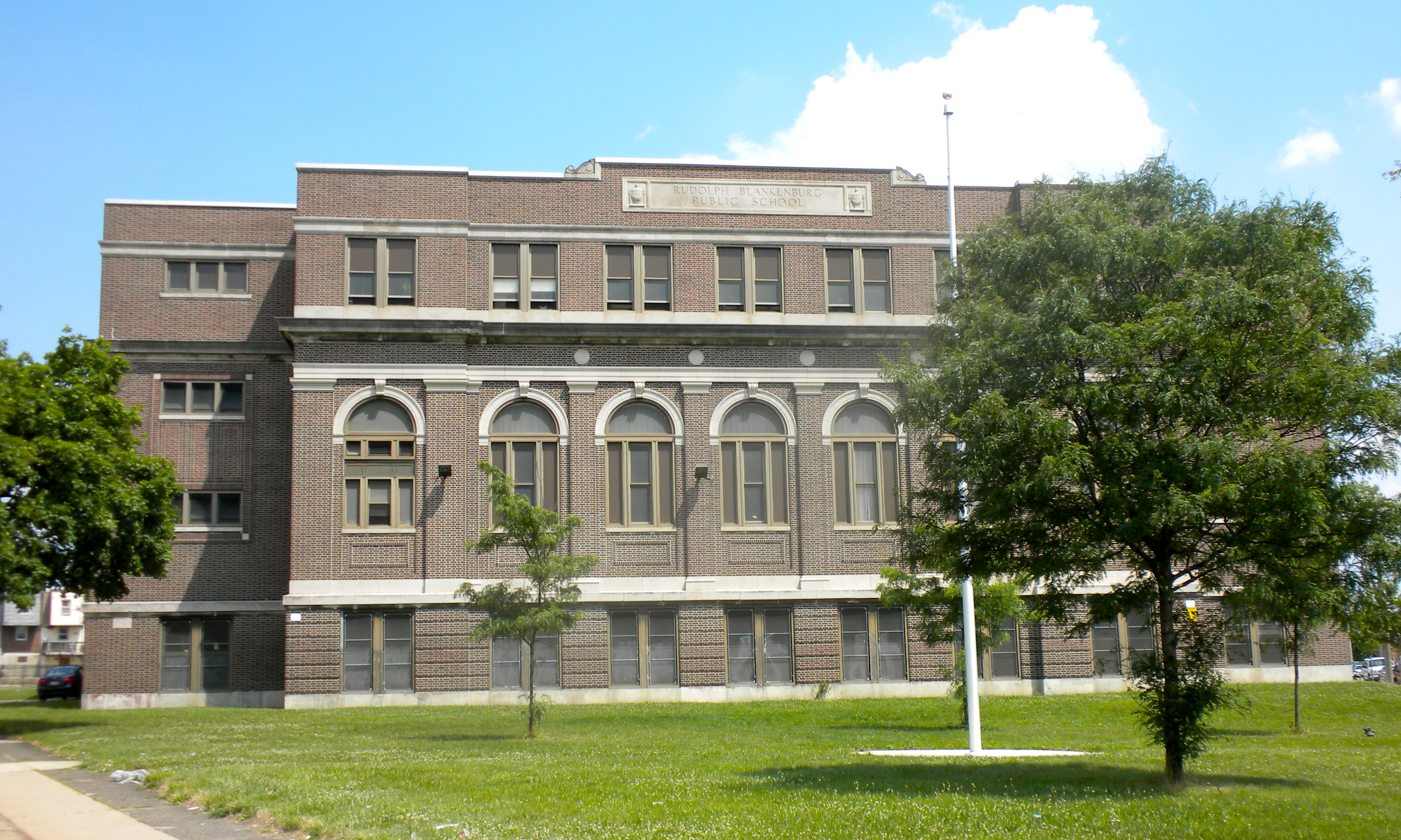 Rudolph Blankenburg School on NRHP since November 18, 1988. At 4600 West Girard Avenue in Mill Creek neighborhood in West Philadelphia, PA.